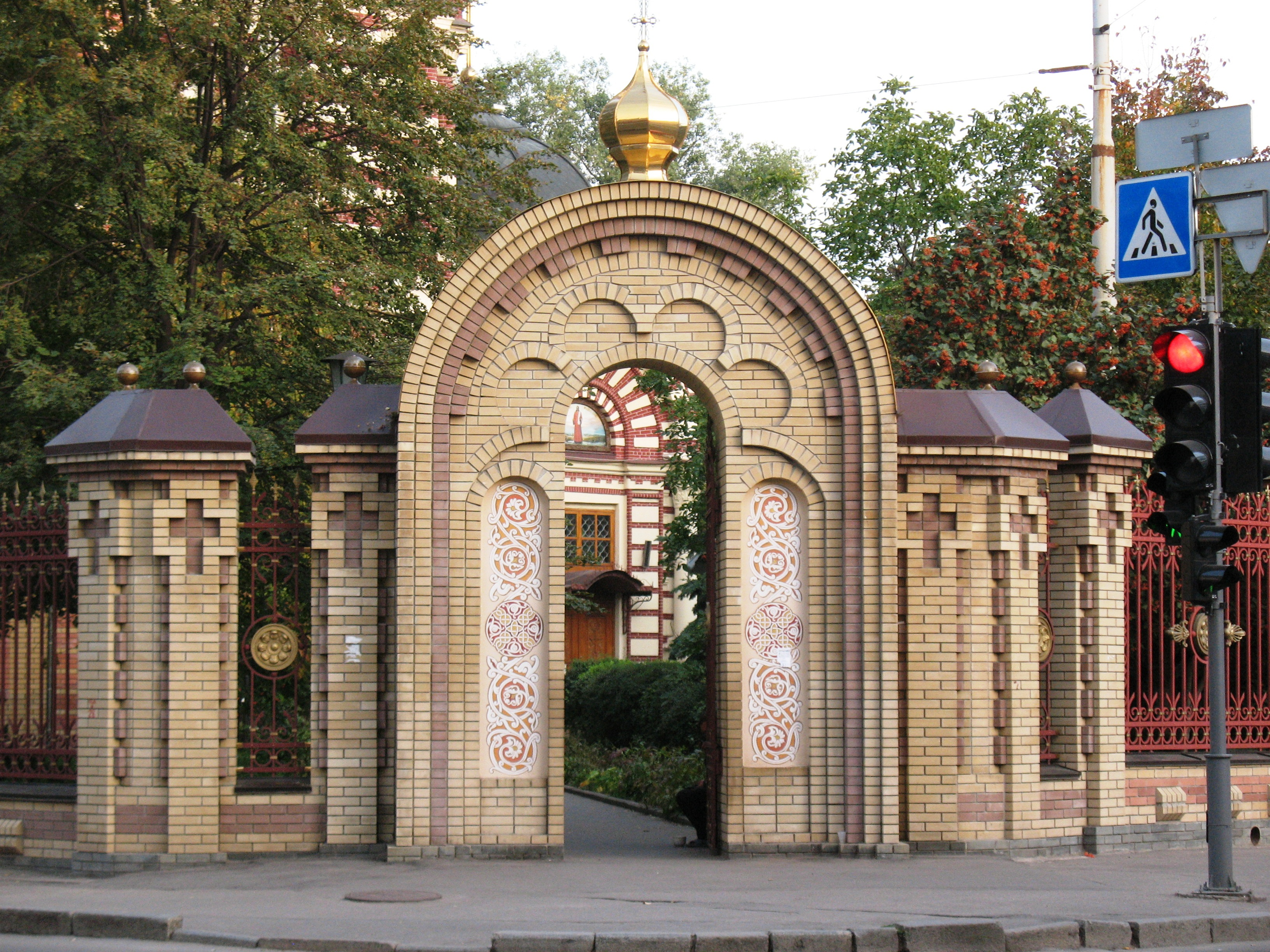 Kharkov City.